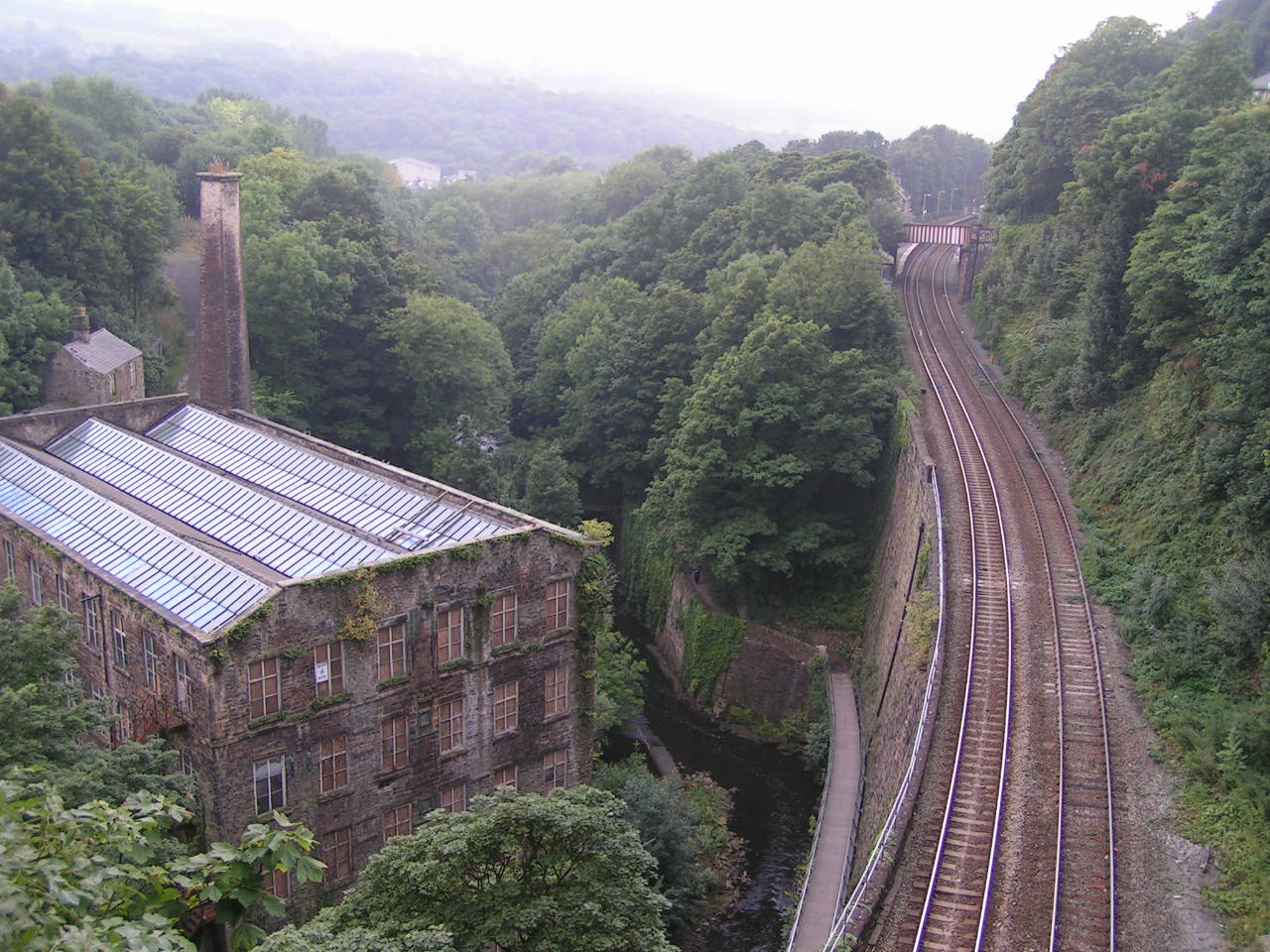 River Goyt, New Mills, Derbyshire showing the Torr Vale Mill, the river and New Mills Central station on the Hope Valley line.